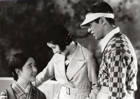 Hisako Takihana (left) and Shizue Natsukawa (center) in Hatobue o fuku onna (鳩笛を吹く女) directed by Tomotaka Tasaka - 1932